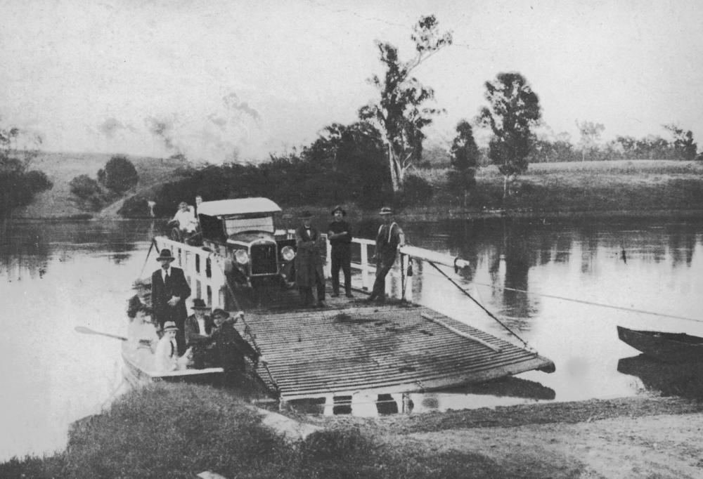 Crossing the Brisbane River on the Moggill Ferry, 1928 The Moggill Ferry was worked by man power.